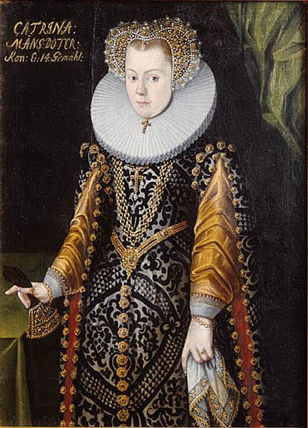 This disputed picture has long been considered to be of Karin Månsdotter, but now, it is presumed to be of Princess Elizabeth; the text on the picture is believed to have been added much later, when one felt a need of a portrait of Queen Karin, but it was probably painted in ca 1580, when Elizabeth was engaged.